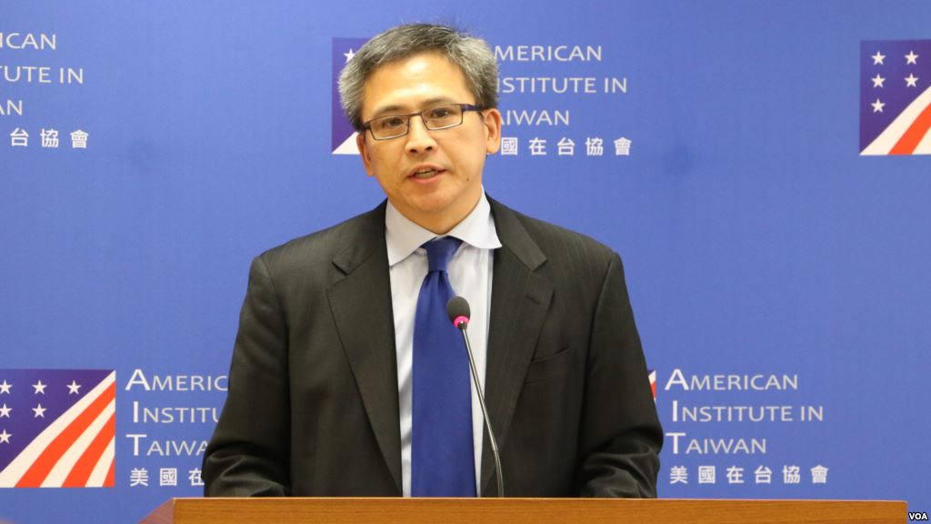 Kin W. Moy, Director of the American Institute in Taiwan / Taipei Office, on his first press conference after assuming the post.